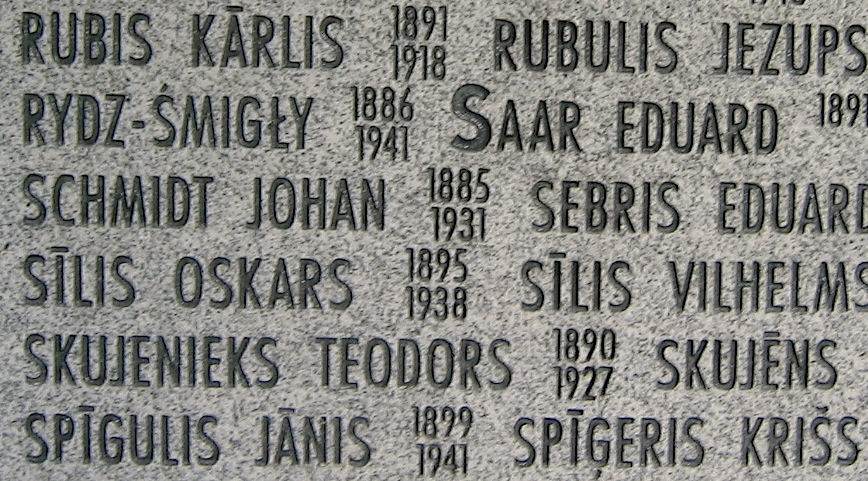 The name of Marshal Edward Rydz-Śmigły of Poland among the recipients of the Order of Lāčplēšis. Riga, the chapel at Brothers' cemetery.